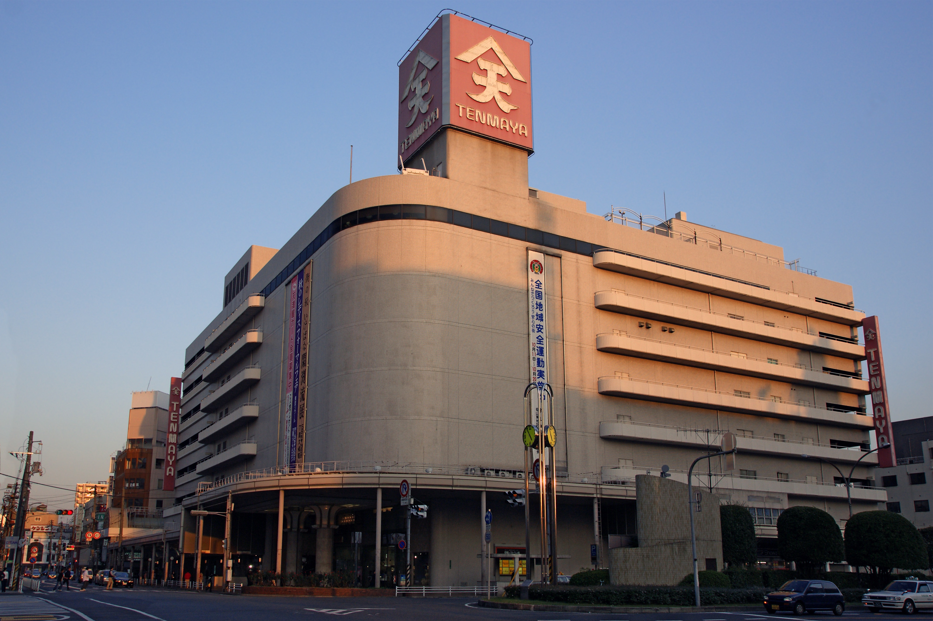 Tenmaya Fukuyama branch, Fukuyama, Hiroshima Prefecture, Japan